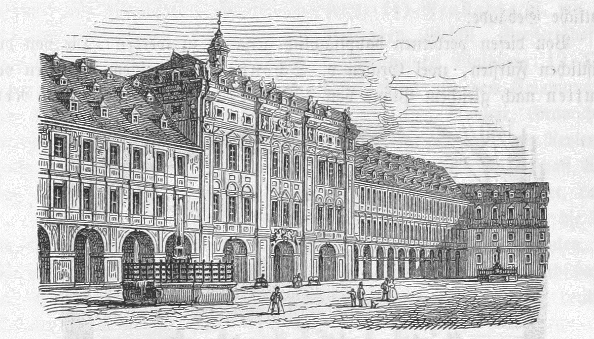 Image extracted from page 830 of above. Original held and digitised by the British Library. Note: The colours, contrast and appearance of these illustrations are unlikely to be true to life. They are derived from scanned images that have been enhanced for machine interpretation and have been altered from their originals.